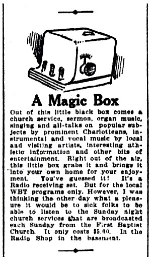 Portion of an advertisement placement for Little Long Company, referring to a crystal radio receiver capable of picking up transmissions from the recently established Charlotte radio station WBT.